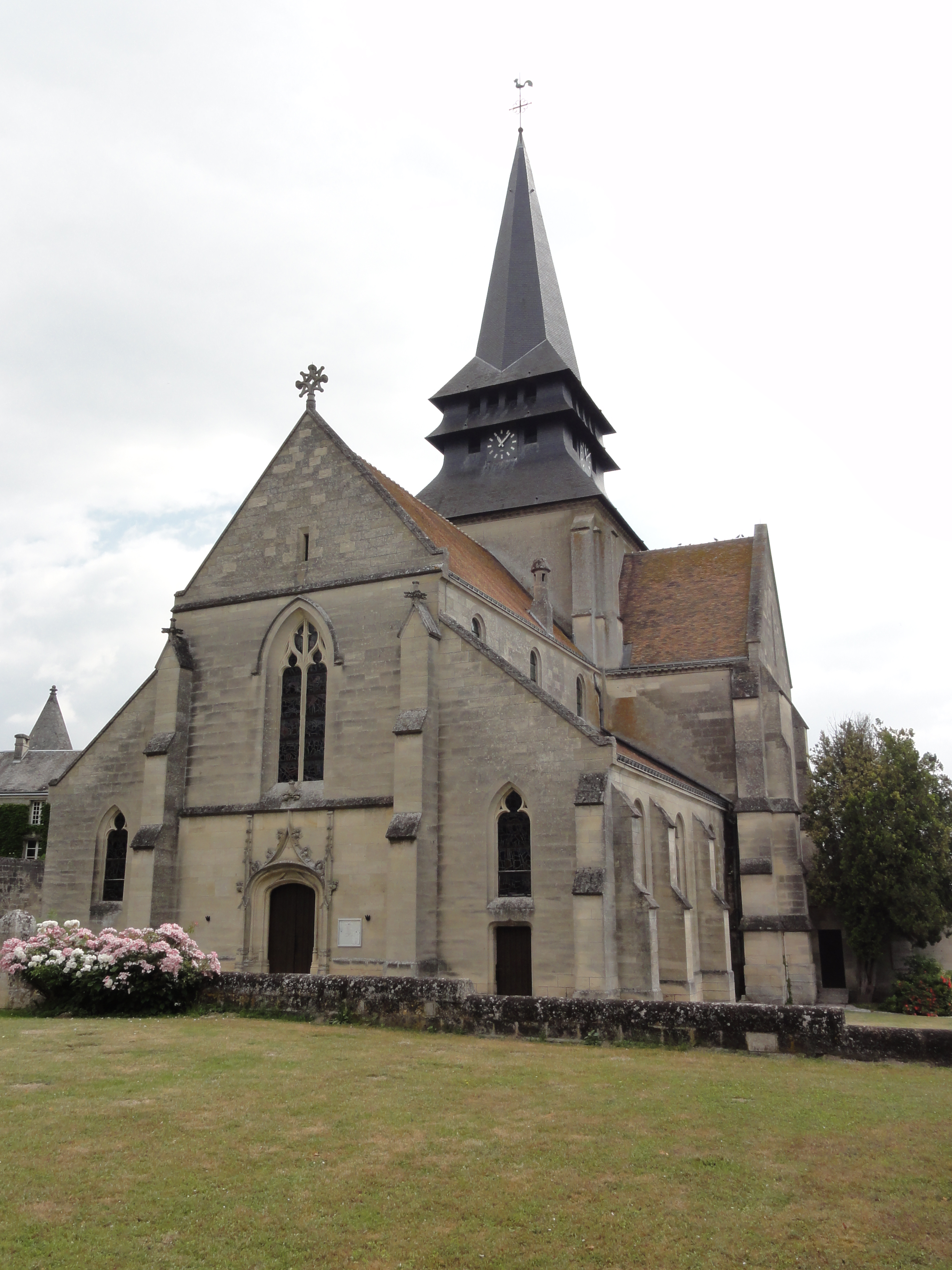 Saint-Pierre-Aigle (Aisne) église